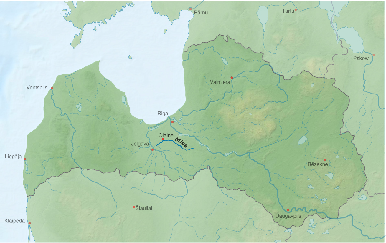 Map of river Misa in Latvia based on relief-location maps by users: NNW, Виктор В, Alexrk2, Chumwa, Karlis